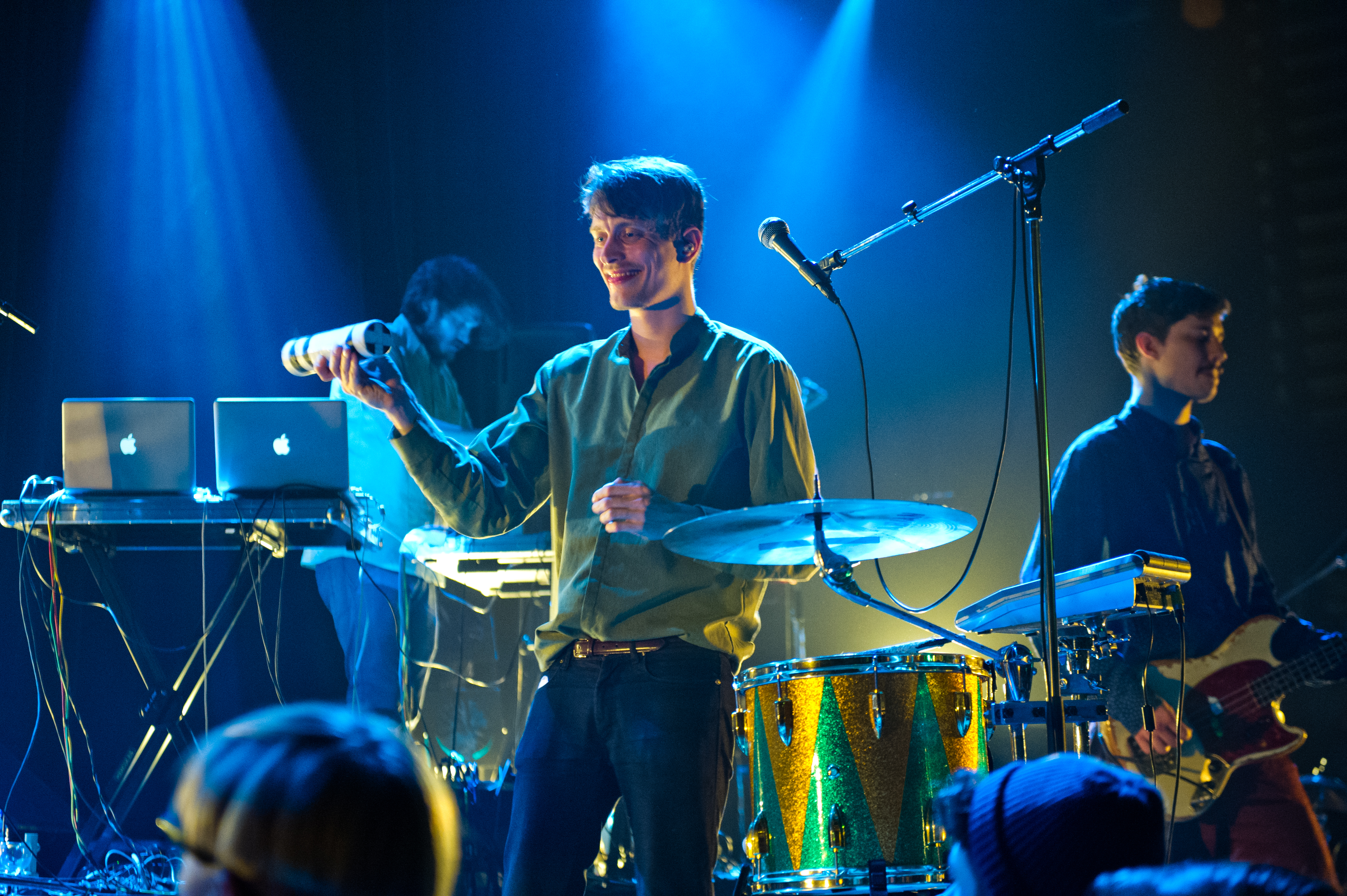 Efterklang playing in Amager Bio, Copenhagen. Photo by Bill Ebbesen.